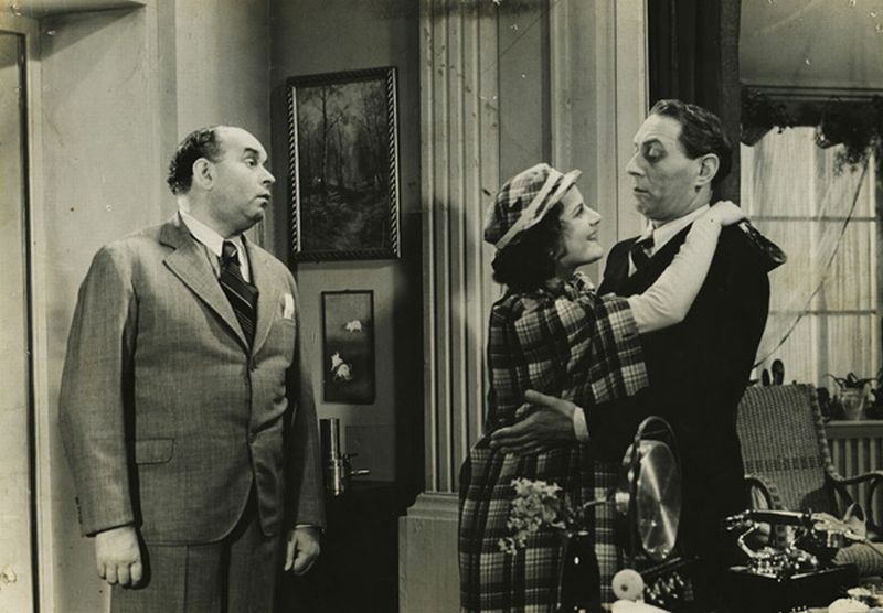 Scene from the Hungarian movie titled Márciusi mese (released in 1934)